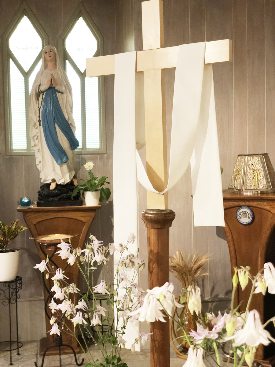 Cappella del Petit Couvent - Casa Madre delle suore dell'Immacolata Concezione di Nostra Signora di Lourdes